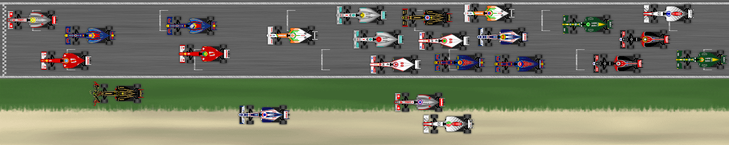 Race result of 2011 German Grand Prix at Nürburgring